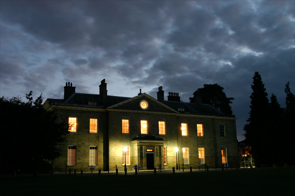 Stanmer House.